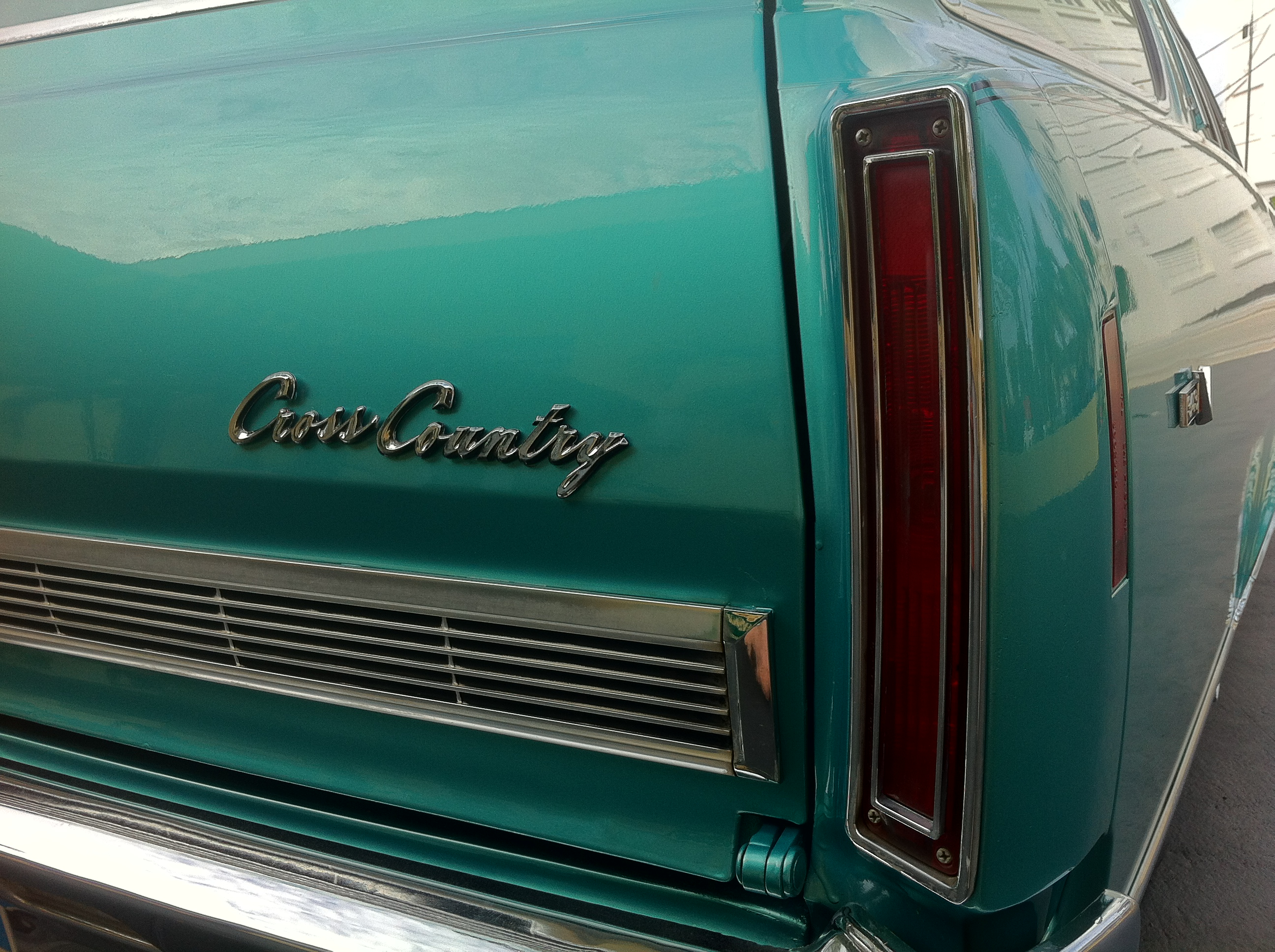 The "Cross Country" emblem on a 1968 AMC Ambassador, a full-size automobile made by American Motors Corporation. This DPL "Cross Country" station wagon has the 343 CID (5.6 L) V8 engine and factory standard air conditioning, as well as the roof cargo rack and a two-way opening tailgate (drop down for long cargo or opens as a door hinged on the left side). This car has the standard individual adjustable reclining front seats and seating capacity for six adults. It has AMC's optional "Turbocast" full wheel covers. However, the air deflectors mounted on the rear sides are aftermarket accessories to help reduce accumulation of dust/dirt on the tailgate window.